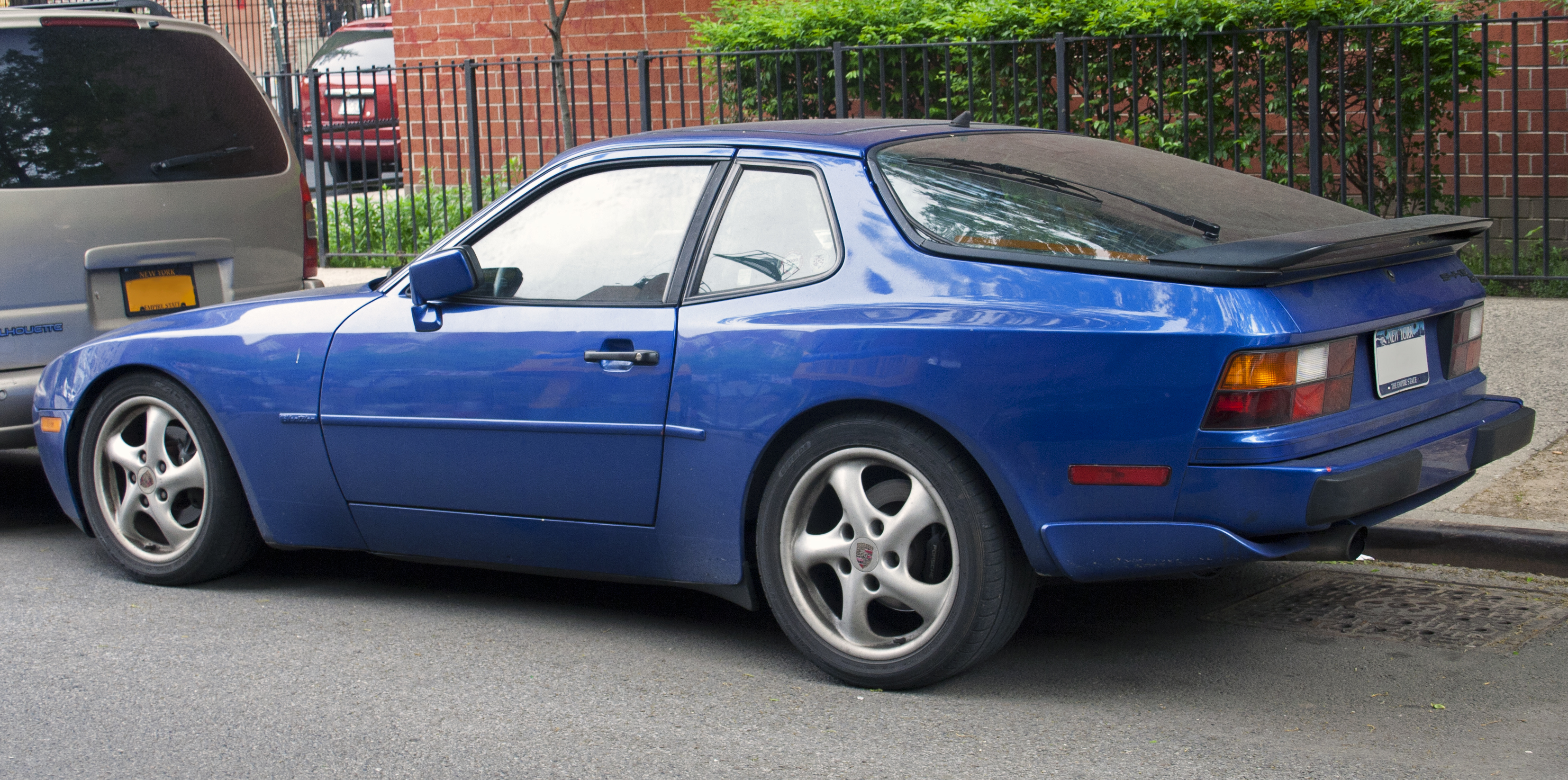 1991 Porsche 944 S2, one of only 510 such cars built for the US market. It shows the 1991-only rear wing to good effect, sadly the wheels are from a later 911 of some sort. Already beginning to crumble (dented, dirty, modified, living dangerously in the Lower East Side), this car will most likely die an ignominous death before very long.